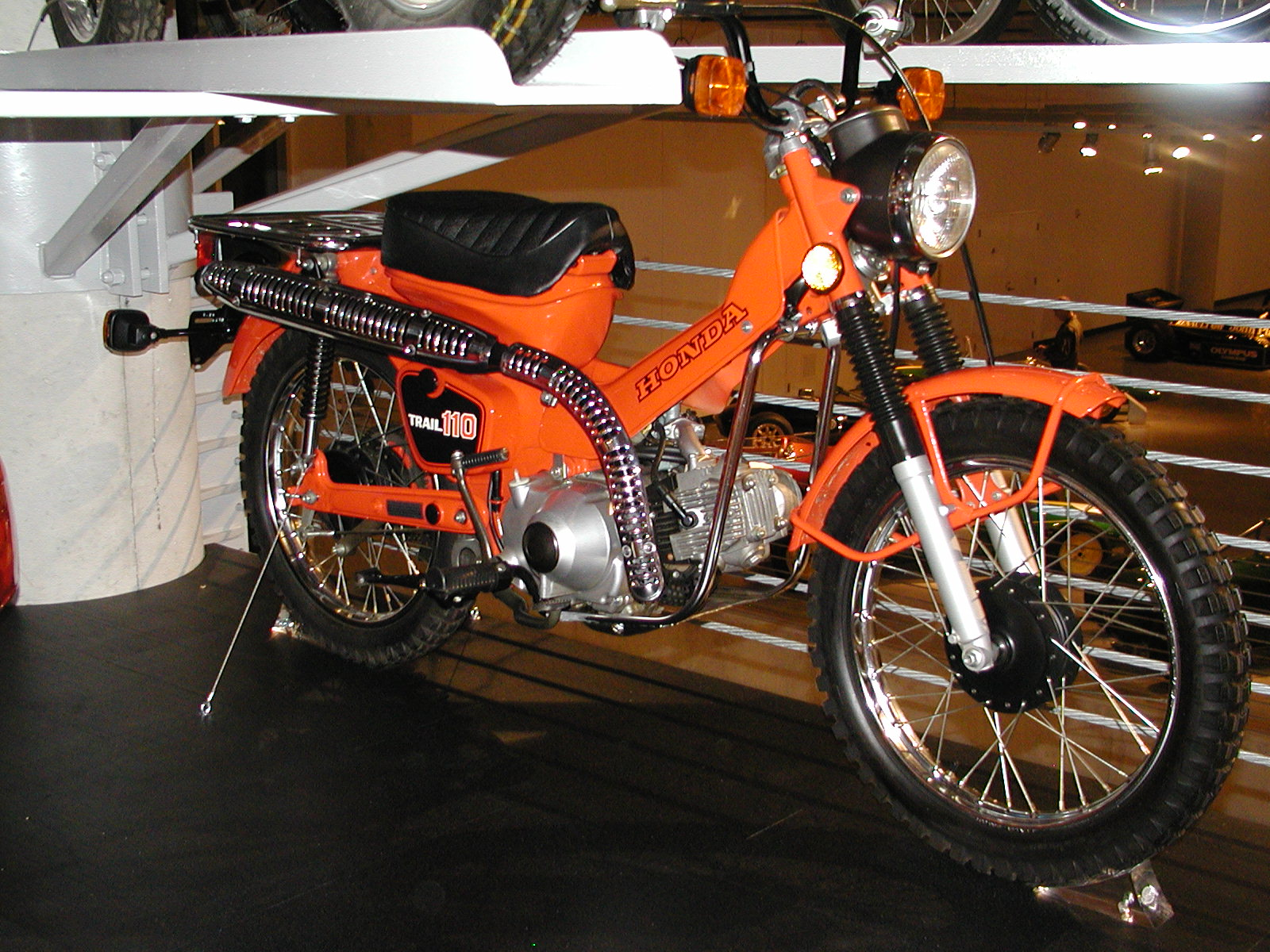 Barber Motorcycle Museum - Oct 22 2006 (97) Honda TRAIL110 CT110 Hunter Cub